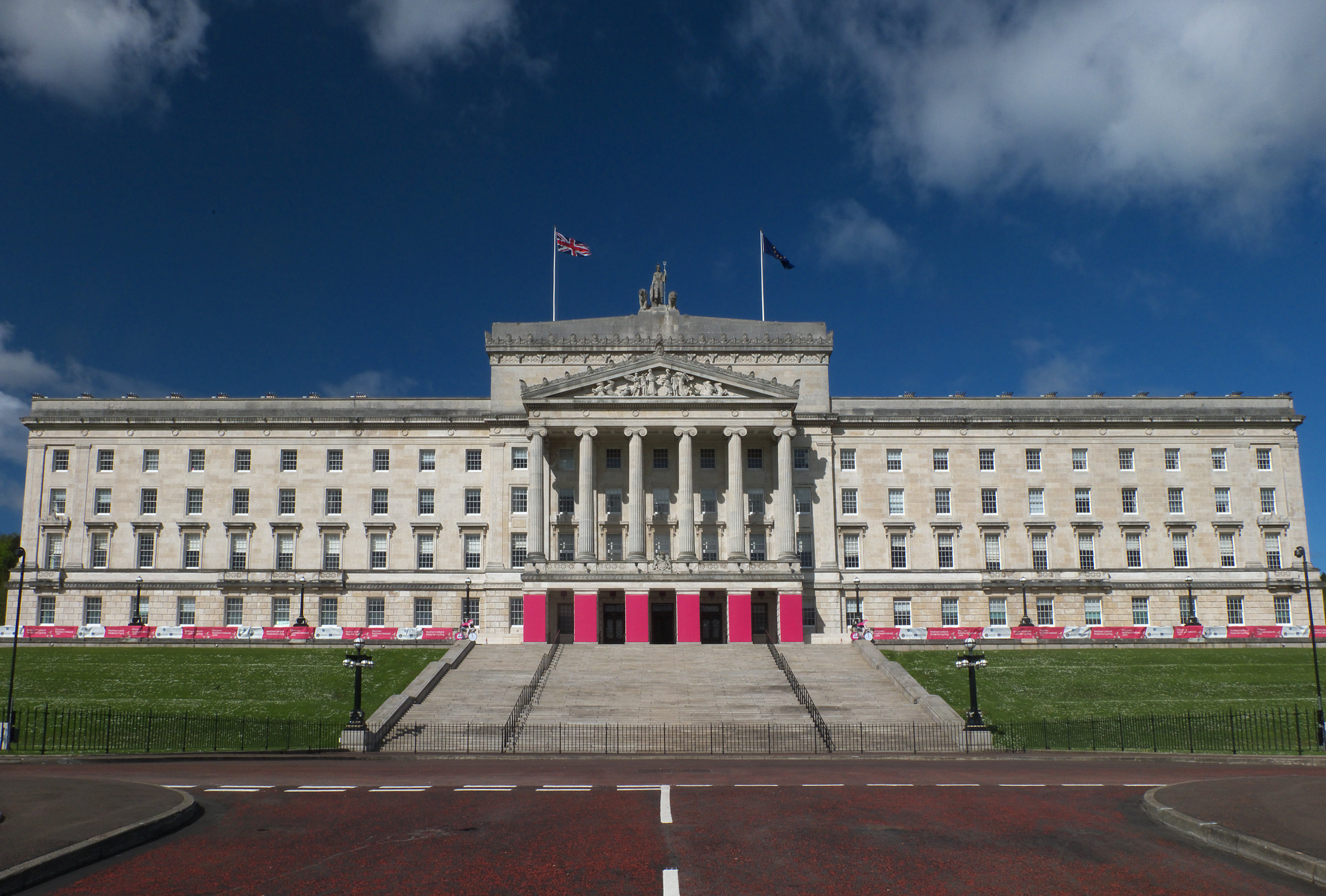 PARLIAMENT BUILDINGS STORMONT ESTATE UPPER NEWTOWNARDS ROAD BELFAST Wikidata has entry Q17860629 with data related to this building.